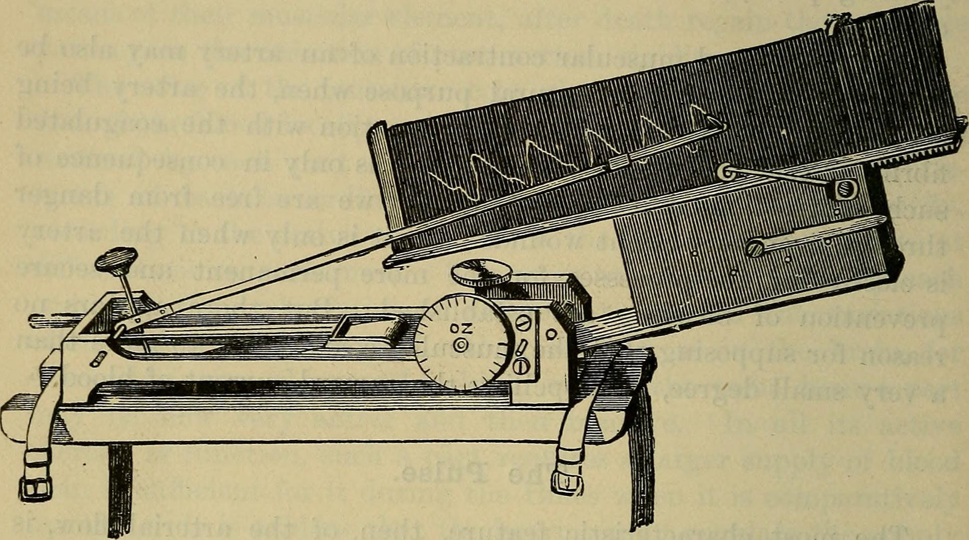 Title: Hand-book of physiology Year: 1892 (1890s) Authors: Baker, W. Morrant, (William Morrant), 1839-1896 Harris, Vincent Dormer Kirkes, William Senhouse, 1823-1864. Hand-book of physiology. 13th ed Subjects: Physiology Human physiology Publisher: London : John Murray Text Appearing Before Image: he straight ones becoming slightly curved, and those alreadycurved becoming more so ; but they recover their previous formas well as their diameter when the ventricular contraction ceases,and their elastic walls recoil. The increase of their curves whichaccompanies the distension of arteries, and the succeeding recoil,may be well seen in the prominent temporal artery of an oldperson. In feeling the pulse, the finger cannot distinguish thesensation produced by the dilatation from that produced by theelongation and curving ; that which it perceives most plainly,however, is the dilatation, or return, more or less, to the cylin-drical form, of the artery which has been partially flattened bythe finger. The pulse—due to any given beat of the heart—is not per- 218 CIRCULATION OF THE BLOOD. (CH. VI. ceptible at the same moment in all the arteries of the body.Thus, it can be felt in the carotid a very short time before it isperceptible in the radial artery, and in this vessel again before Text Appearing After Image: Fig 179.—Mareys Sphygmograph, modified by Mahomed. it occurs in the dorsal artery of the foot. The delay in thebeat is in proportion to the distance of the artery from theheart, but the difference in time between the beat of any twoarteries probably never exceeds i to -§- of a second. A distinction must be carefully made between the passage ofthe wave along the arteries and the arterial flow itself. Both